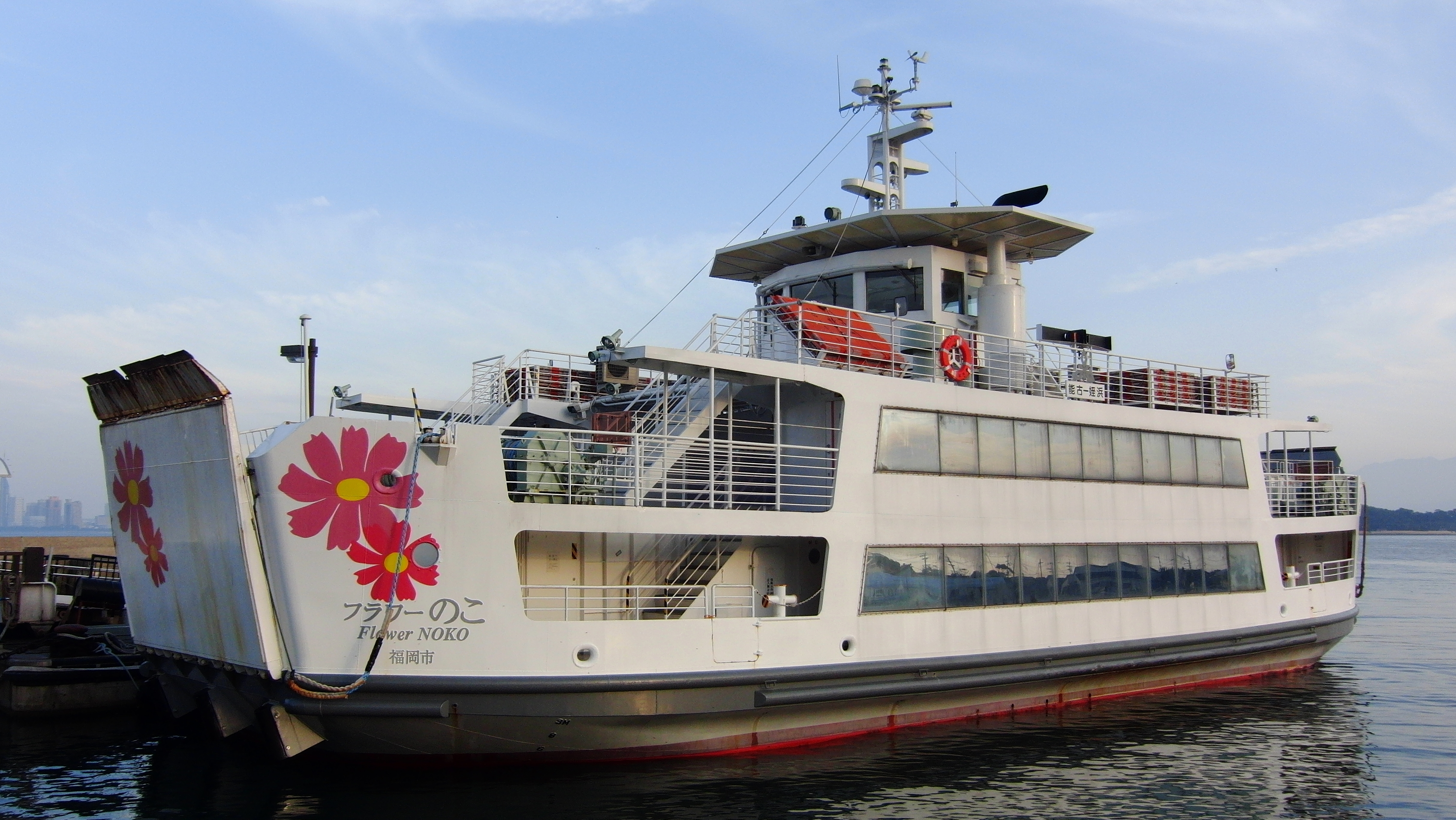 Flower Noko of Fukuoka Municipal Ferry Service at Nokonoshima